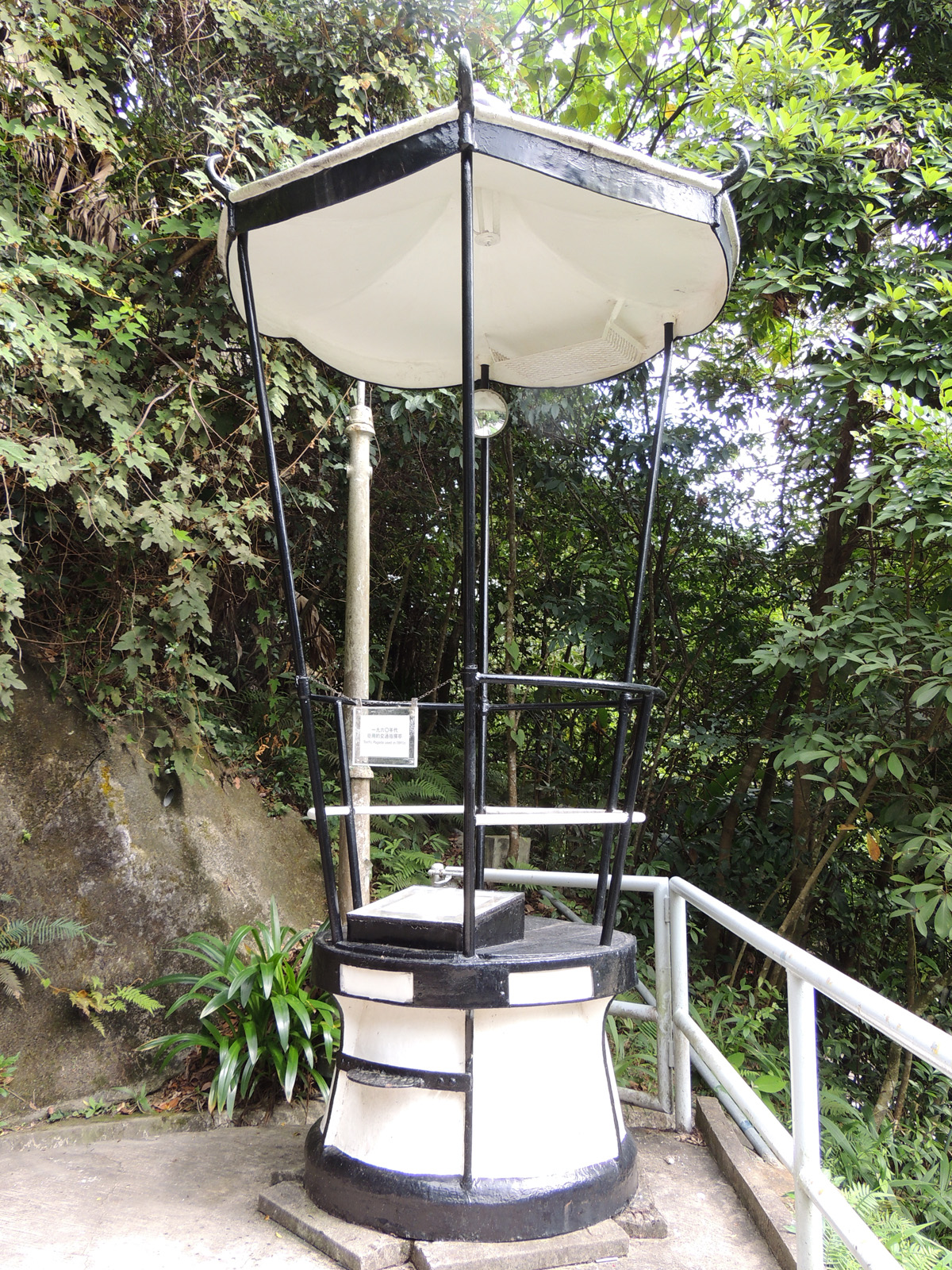 Traffic Stand, Hong Kong Police Museum